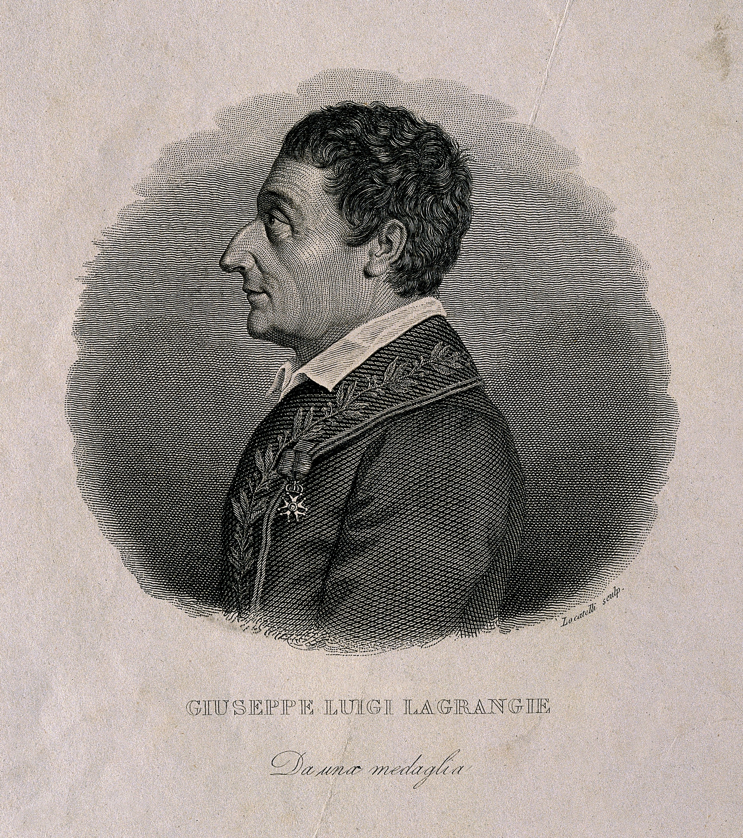 Joseph Louis Lagrange. Line engraving by Locatelli. Iconographic Collections Keywords: portrait prints; Joseph-Louis Lagrange; engravings